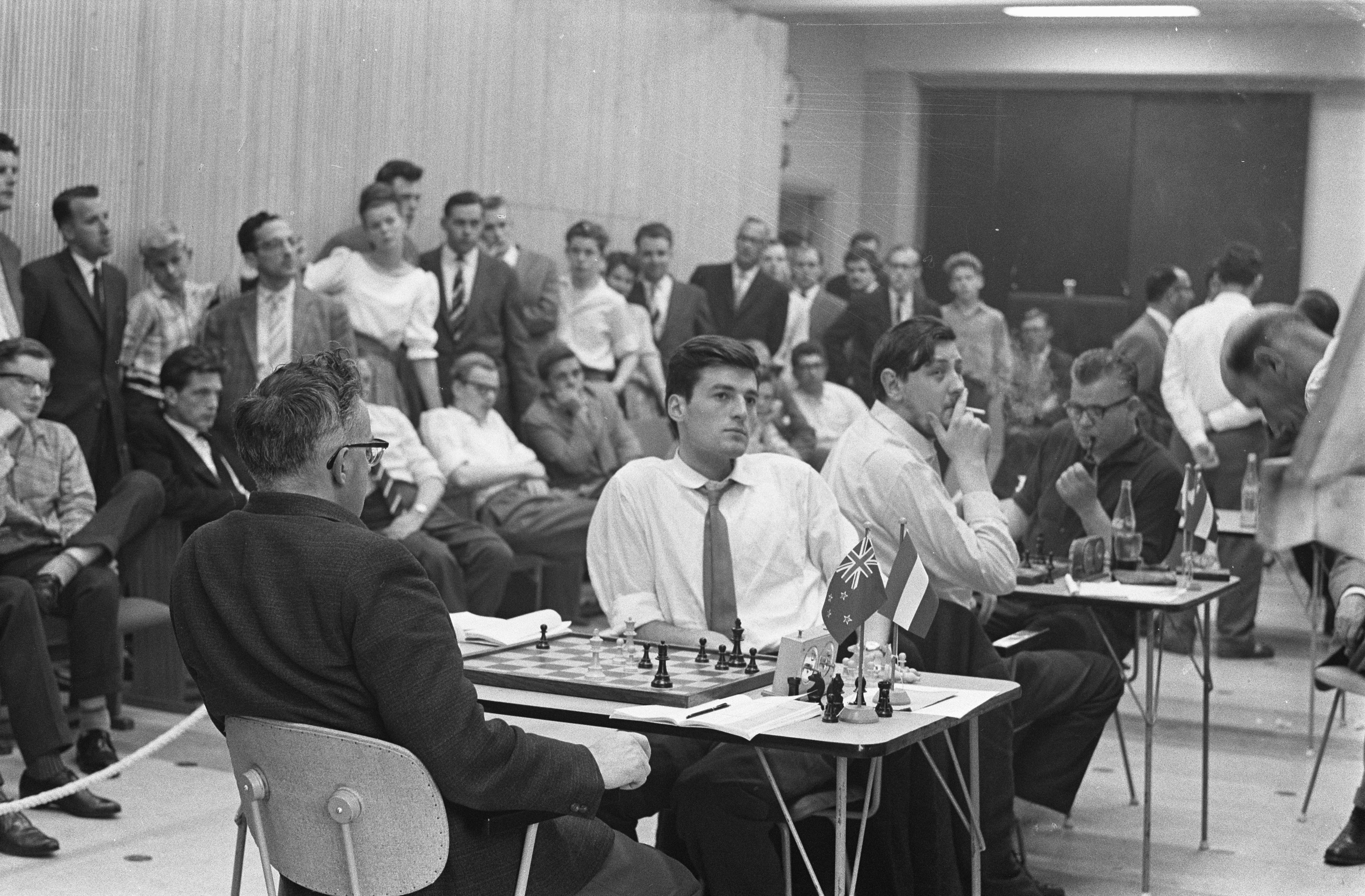 IBM Chess Tournament 1961, from left to right: Robert Wade, Kick Langeweg, Hein Donner, Jens Enevoldsen